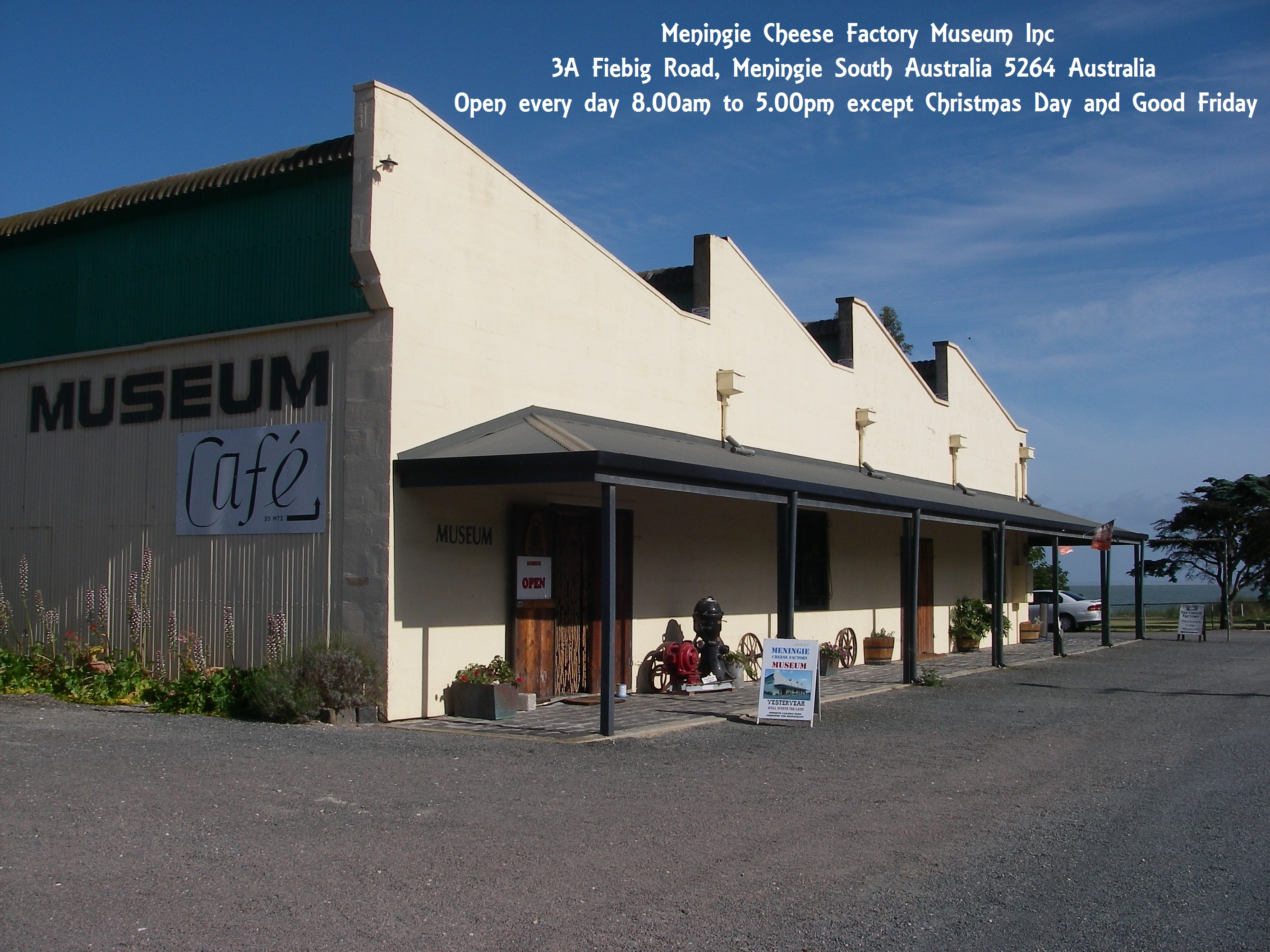 Meningie Cheese Factory Museum Inc Preserving the history of our community for future generations.